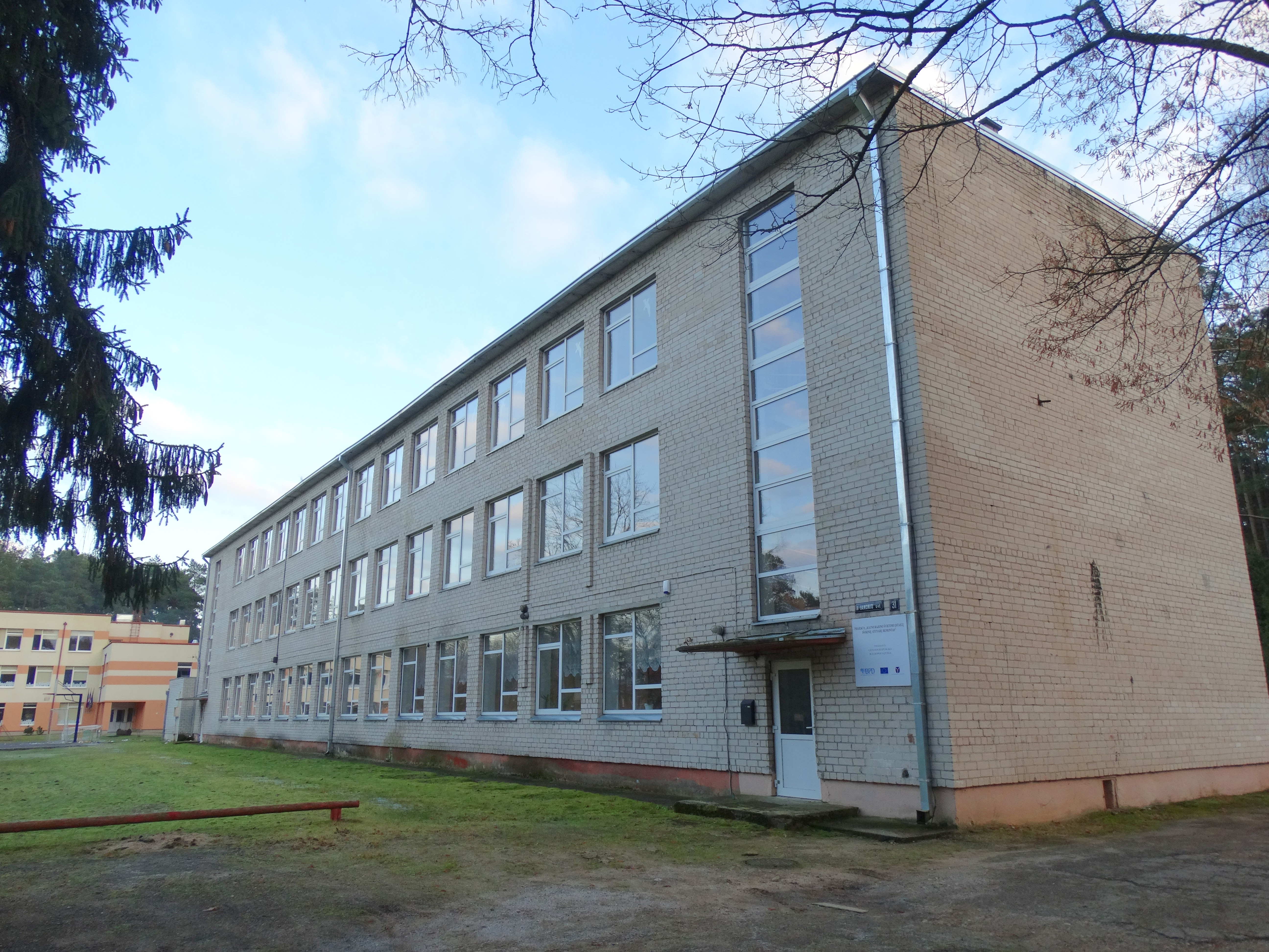 Kačerginė, school, Kaunas District. Lithuania